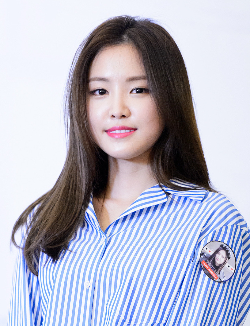 Son Na-eun at Duoback fansigning event, 5 March 2016